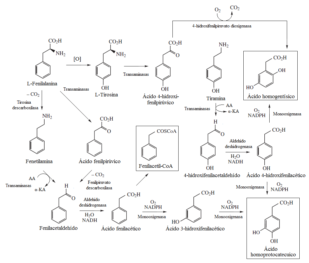 Preliminar aromatic amino acids degradation scheme